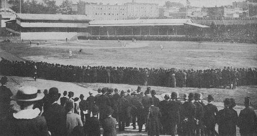 Photo of the first Washington Park in Brooklyn